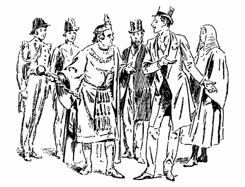 Image taken from listed as public domain